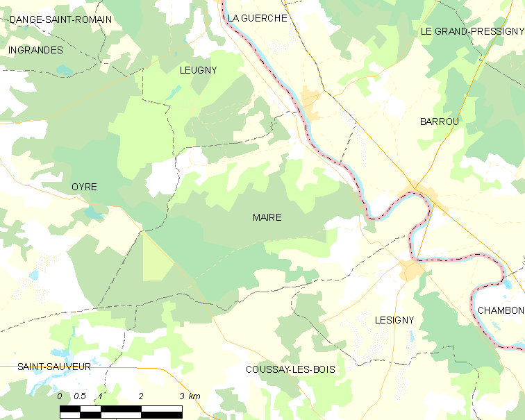 Map of French municipality Mairé